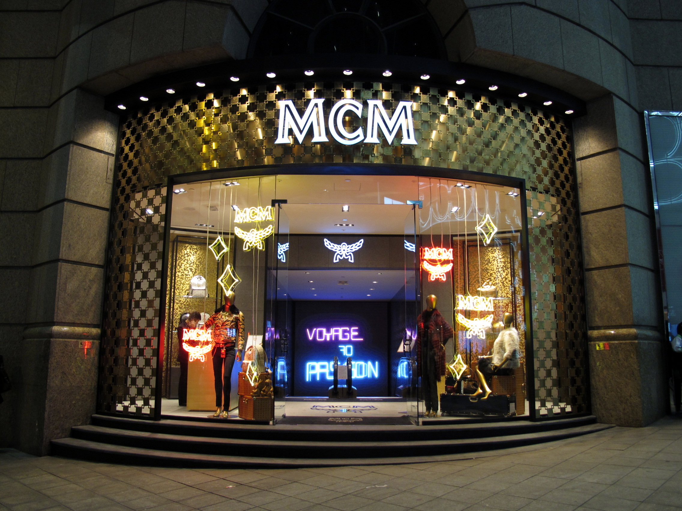 Entertainment Building MCM Store